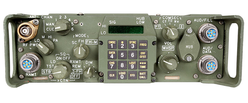 The front of the Exelis SINCGARS RT-1523B